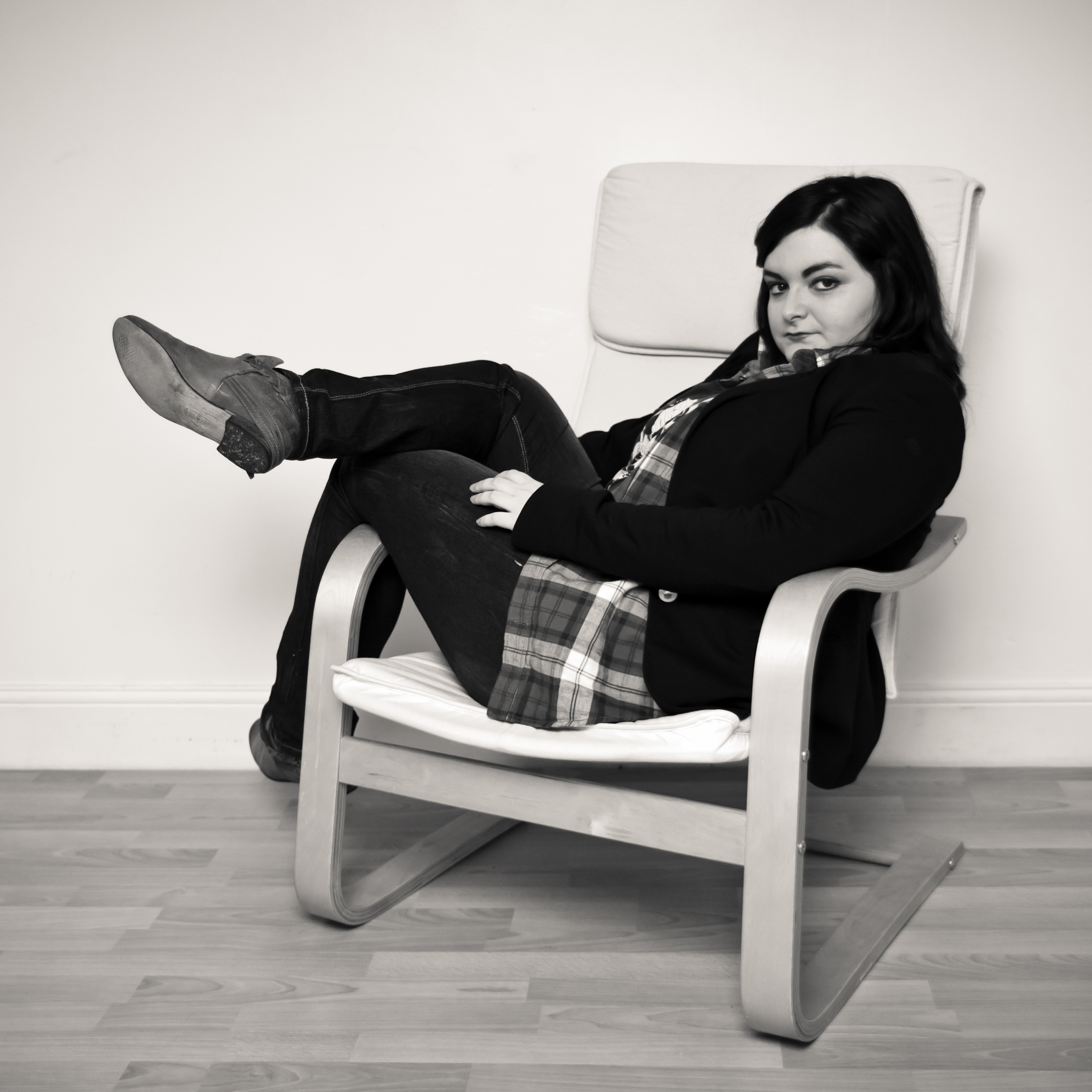 Woman lounging in an IKEA Poäng chair